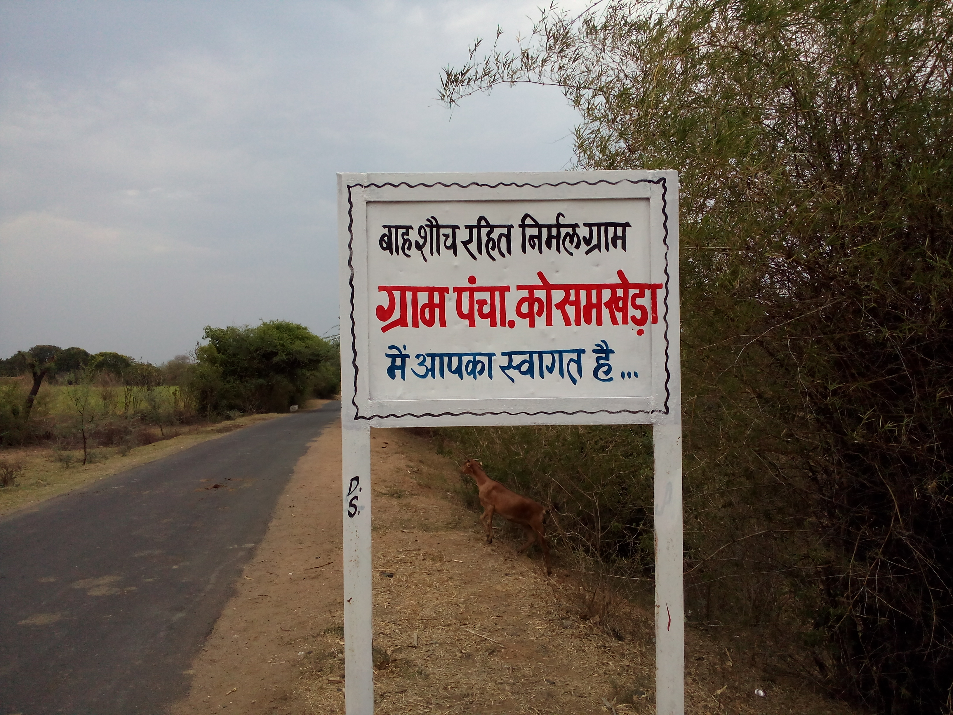 100% households and institutions, including school or anganwadi, have a functioning toilet